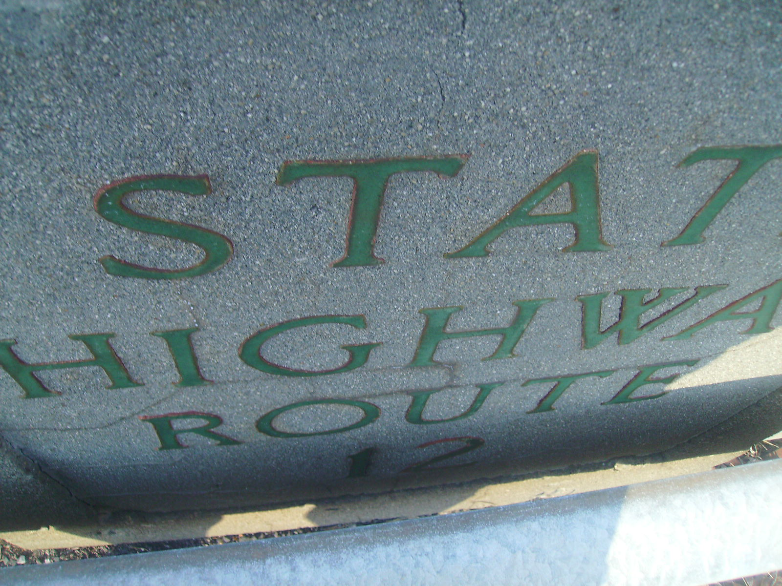 Bridge stamp for New Jersey Route 12